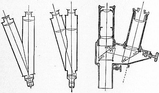 Binocular microscopes. Illustration from 1911 Encyclopædia Britannica, article Binocular Instrument